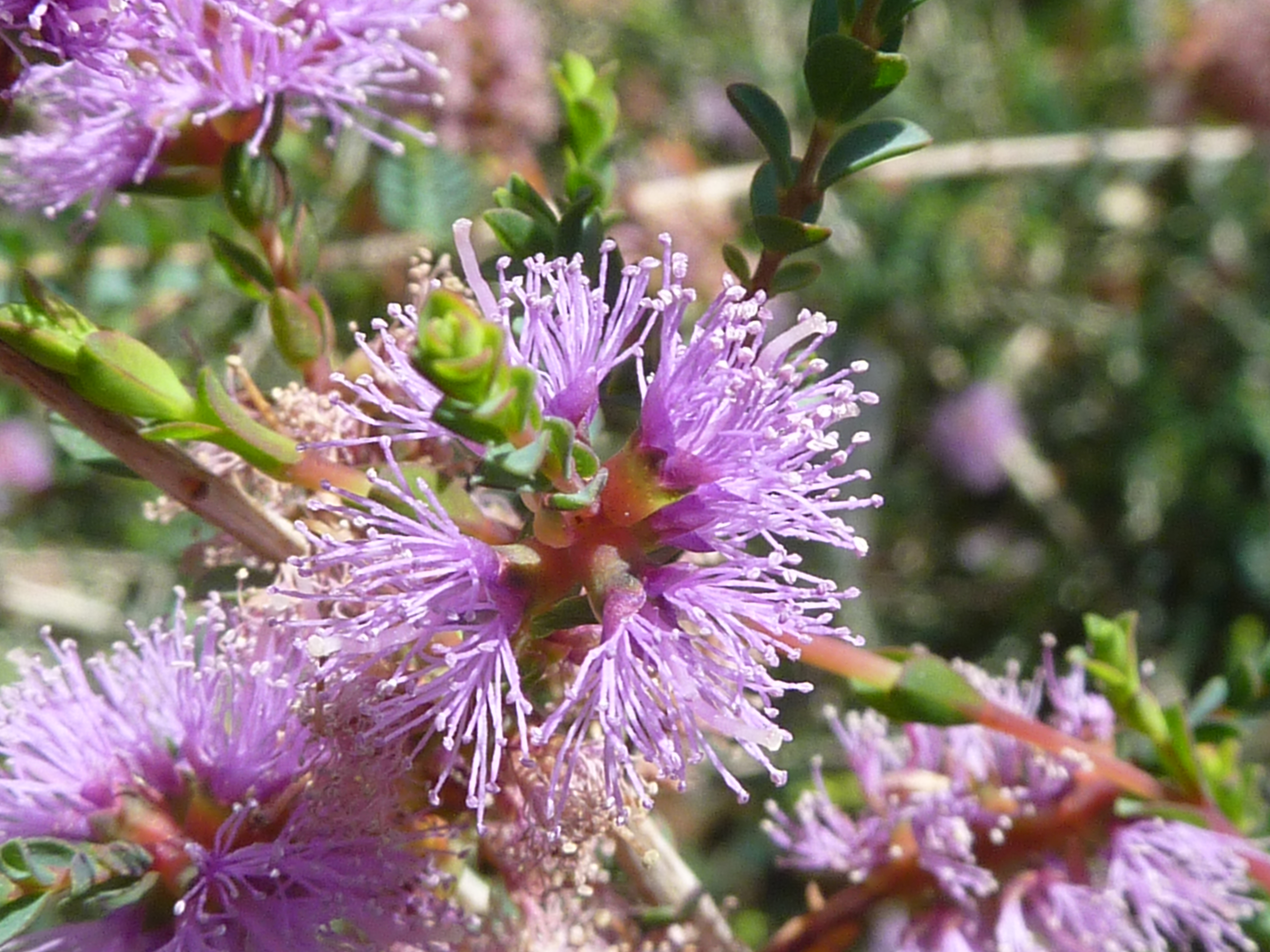 Taken in the Cambridge University Botanic Garden